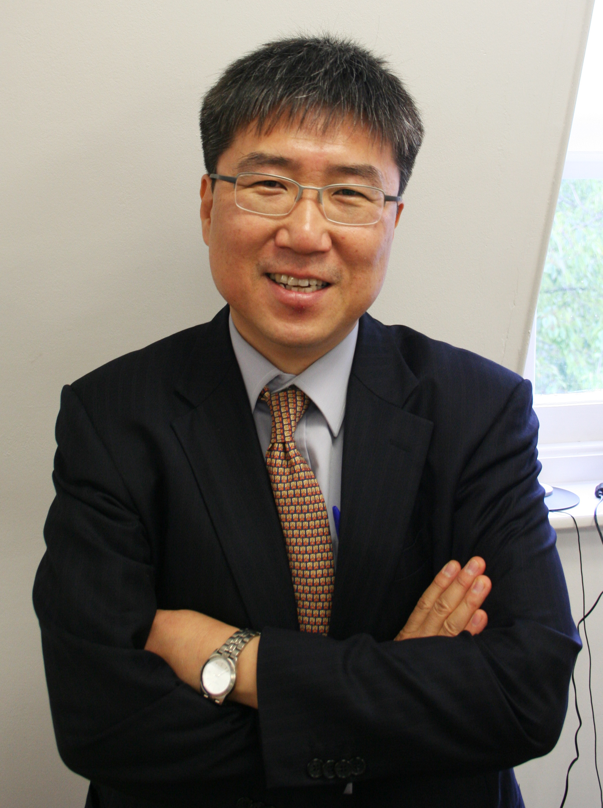 A photograph of Ha-Joon Chang at an event at the Institute for Public Policy Research on 10 October 2011.